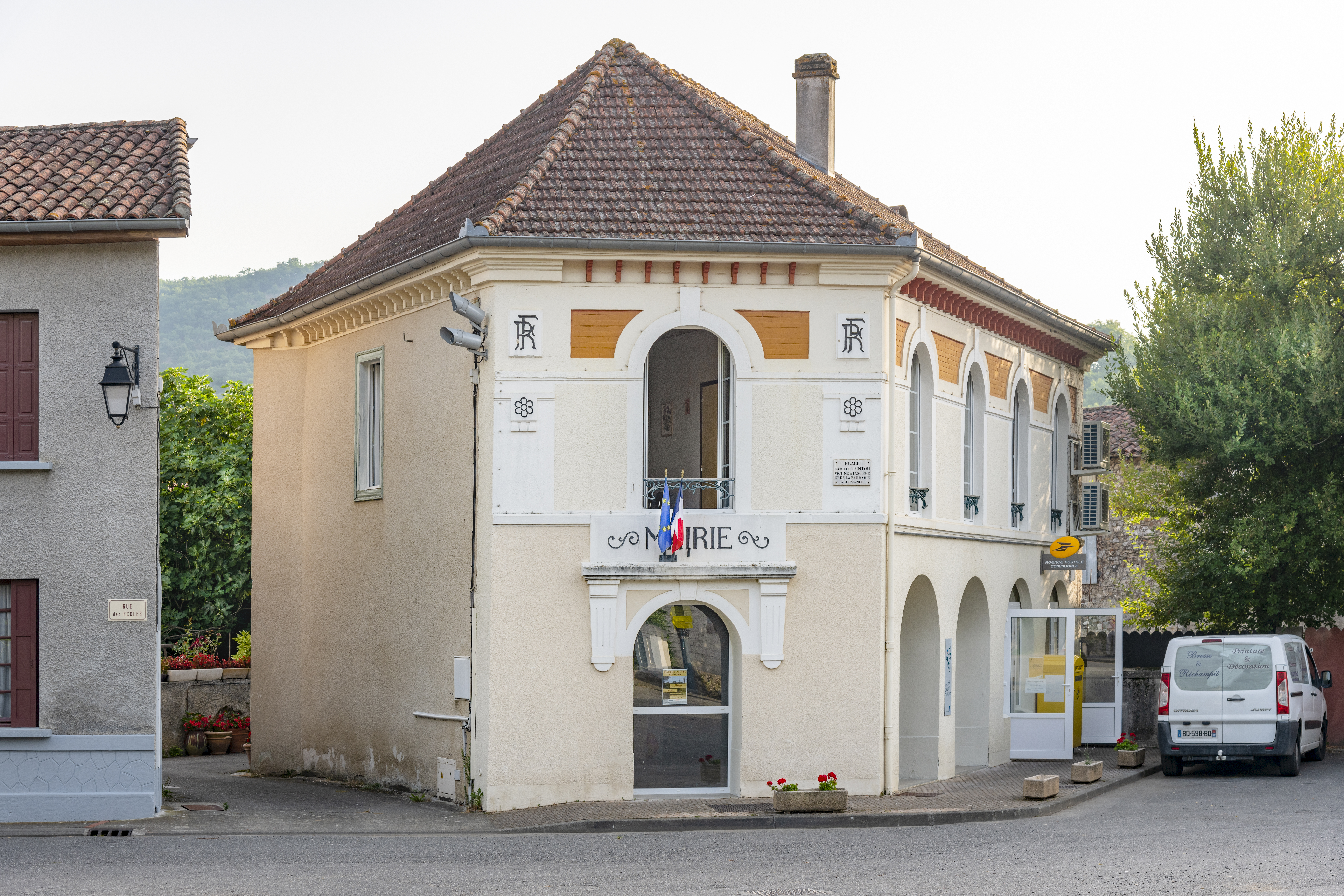 Facade of town hall of Izaut-de-l'Hôtel, Haute-Garonne, France.